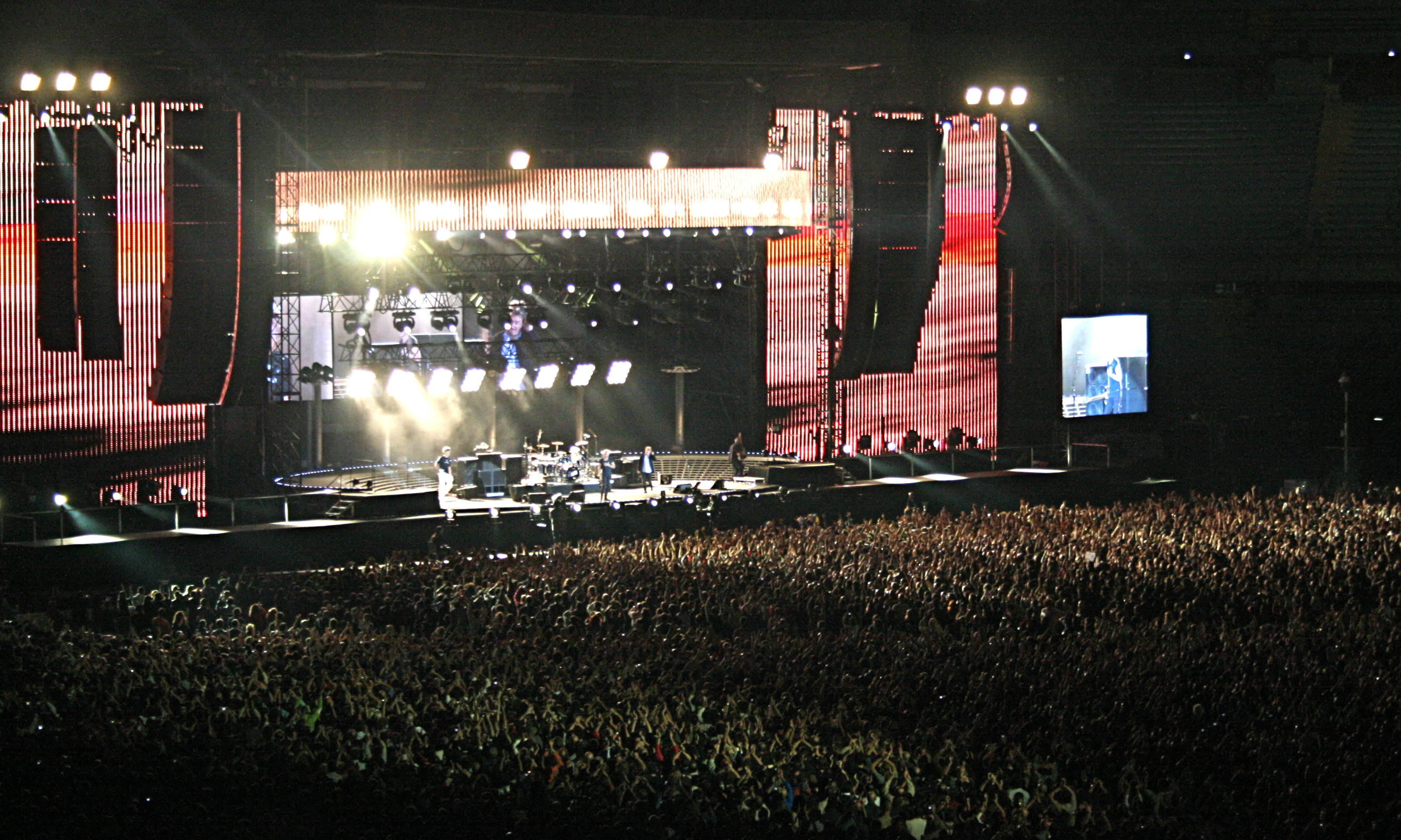 Not So Lonely